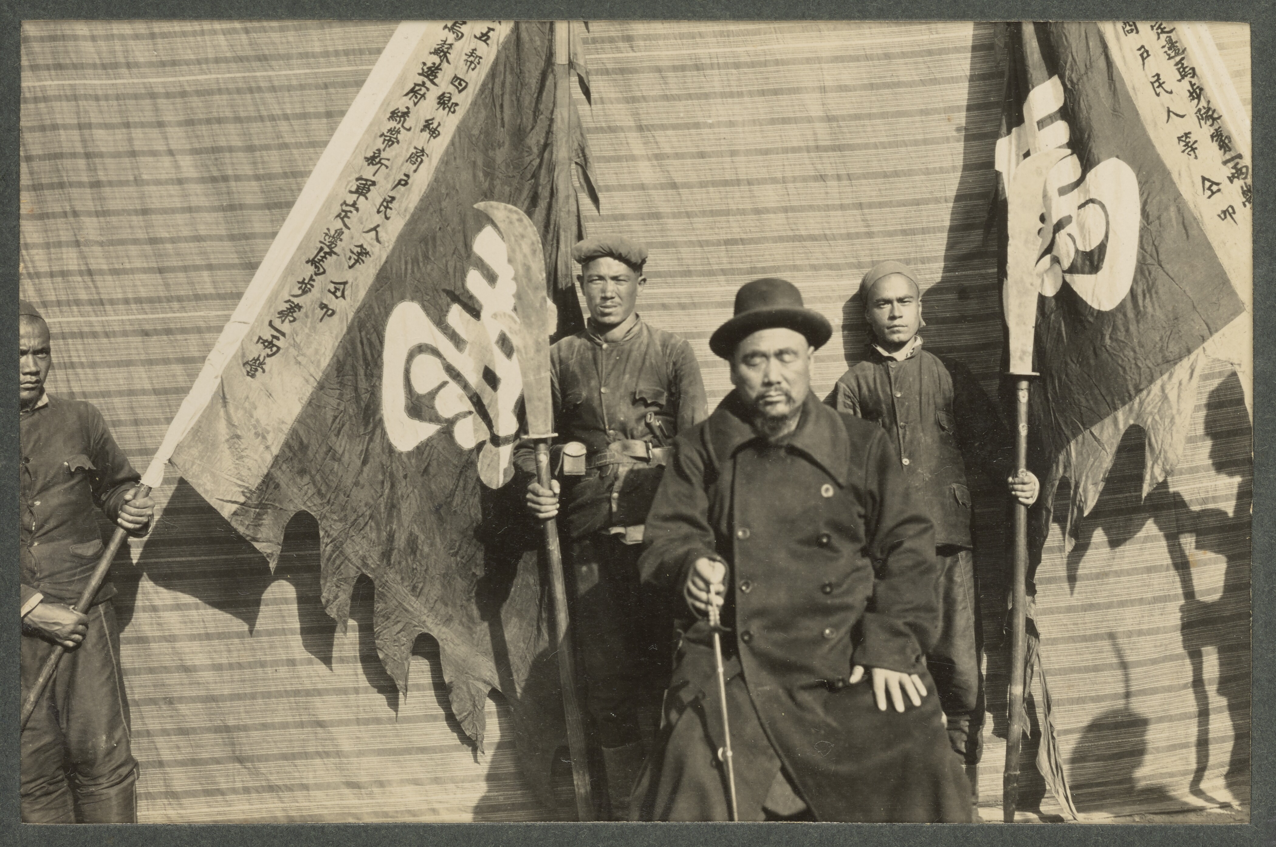 Man seated with soldiers with polearms and flags behind. Appears as an illustration in the book Through Deserts and Oases of Central Persia (1920).